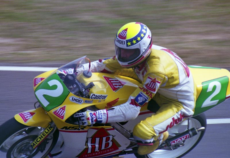 Reinhold Roth, at Japanse Grand Prix 1990